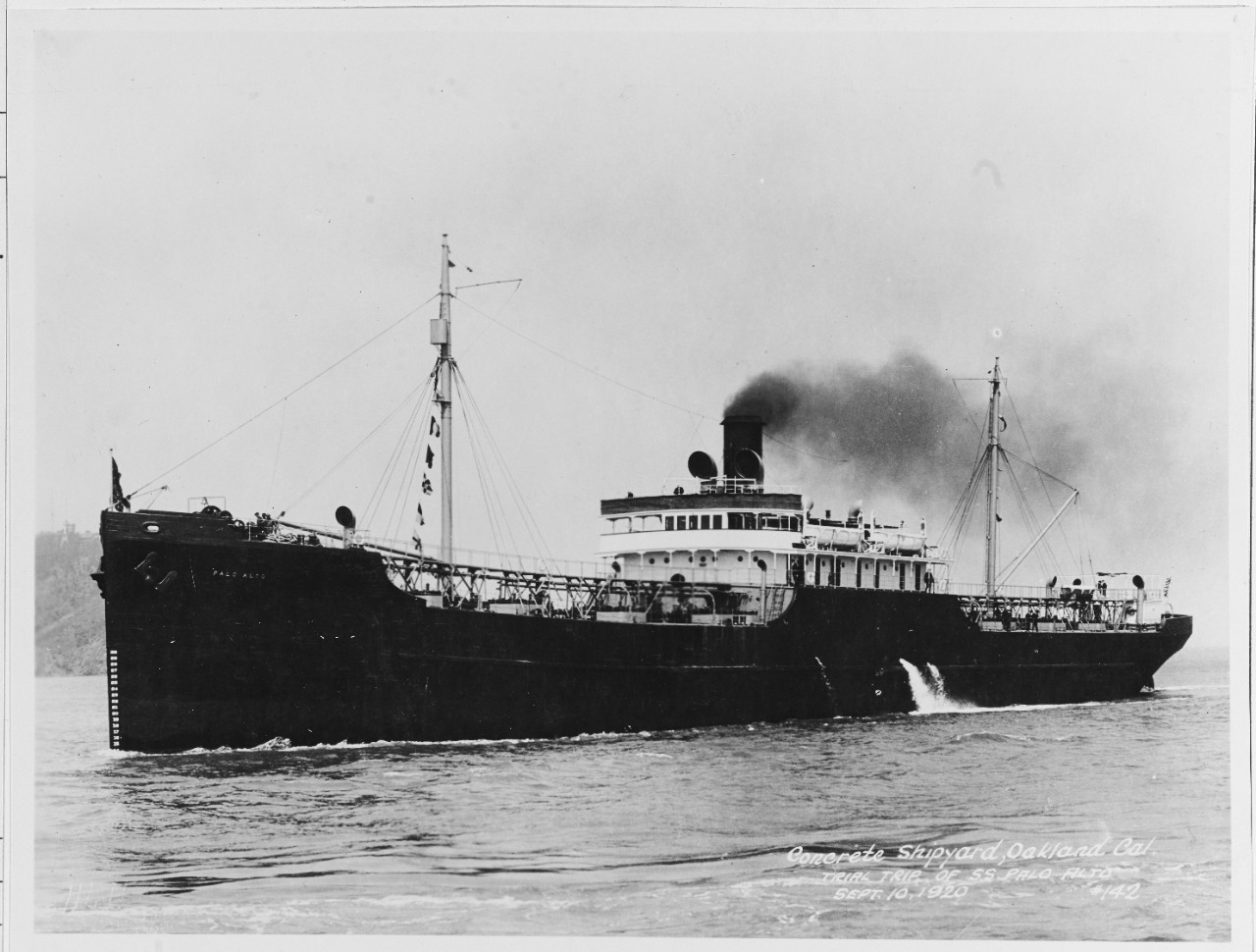 Image of the concrete oil tanker and steamship Palo Alto on her sea trials on 10 September 1920 in Oakland, California. Palo Alto was part of a handful of concrete ships built for intended use during World War I but ultimately not completed until war's end. Palo Alto never entered service as a steamship, spending her remaining days first as an amusement attraction, a fishing pier and finally an artificial reef. Uploader's note: I contacted the NHHC regarding the copyright status of this photograph. I received an official email in reply from the NHHC stating the photograph in question was released to the public domain so long as the source and catalog number were provided wherever it may be used and I have provided such information.